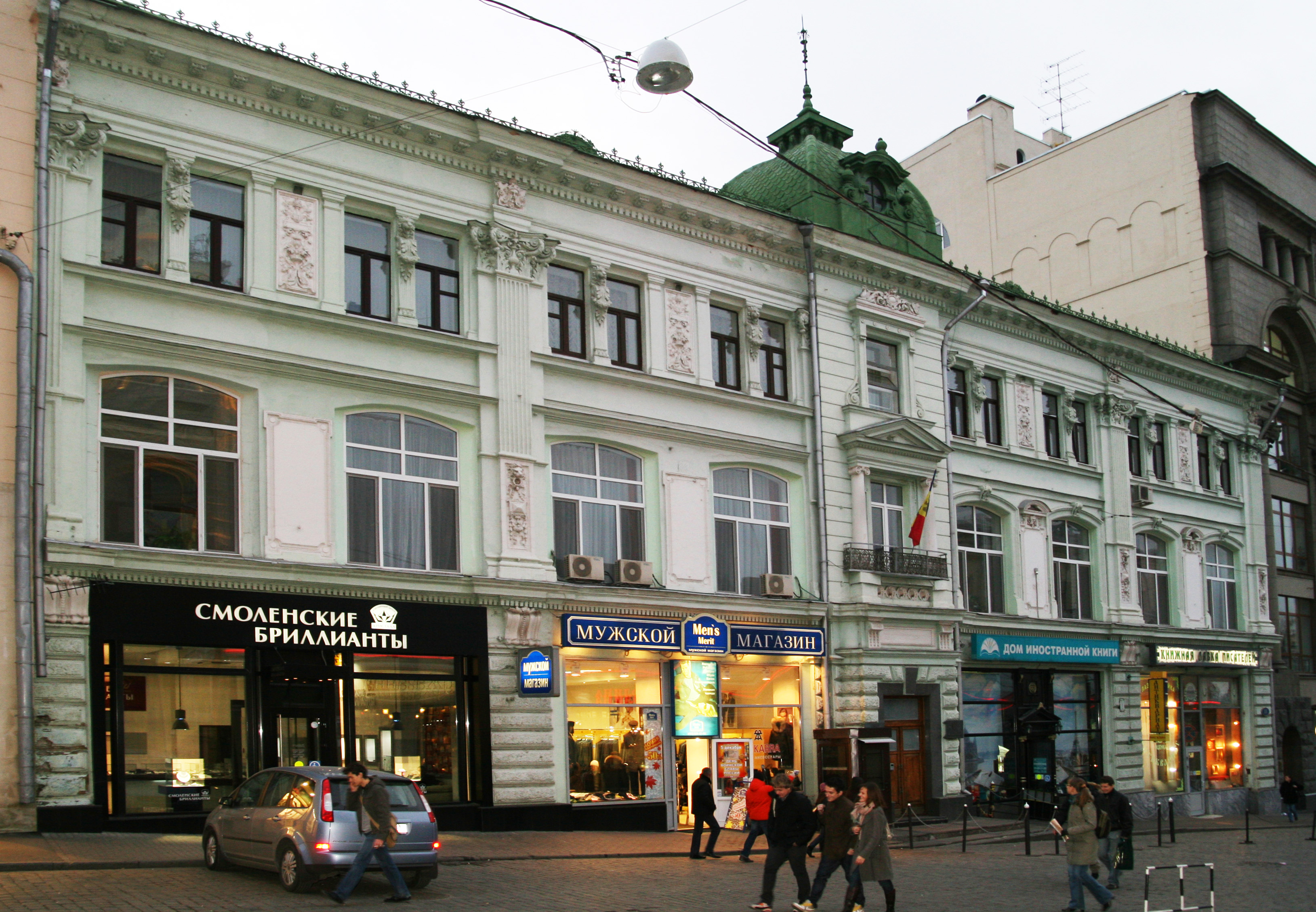 Moscow, Kuznetsky Most Street 18